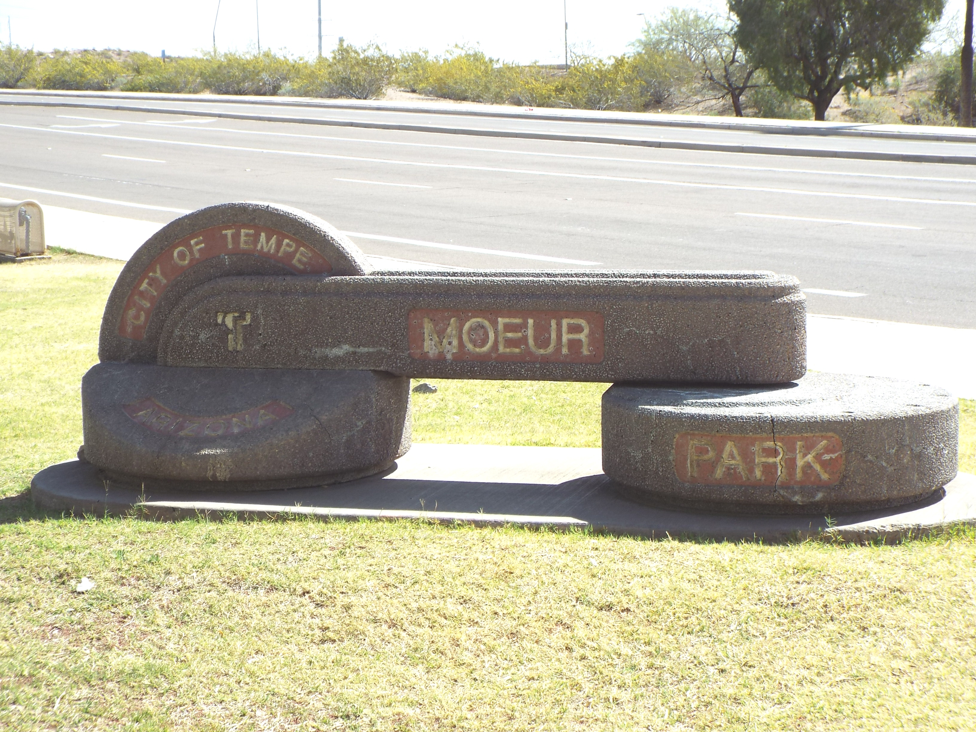 Entrance to Moeur Park which was established in 1933 and is located on Mill Ave in Tempe, Az. The park was named after Dr. Benjamin B. Moeur who served two terms as governor of Arizona.